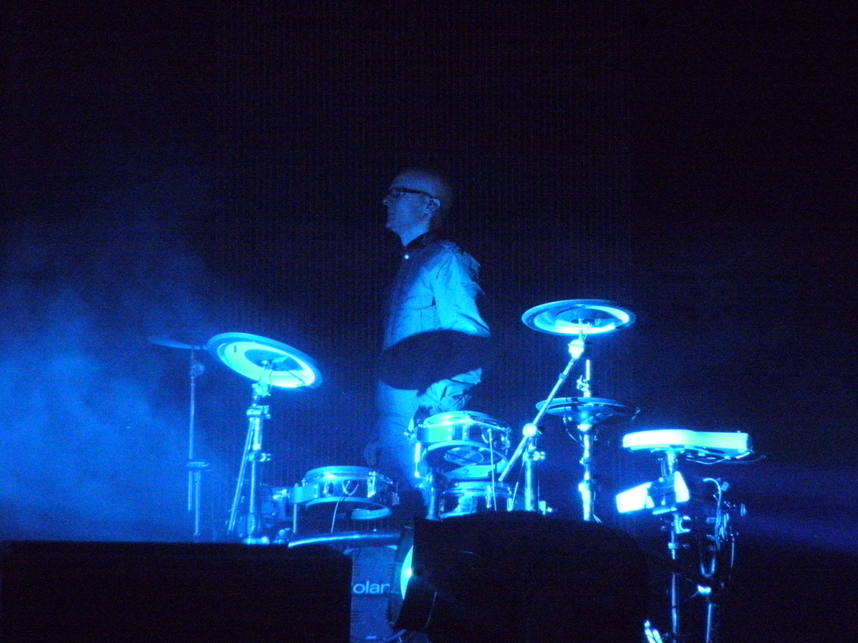 Michael Schack during a live show from Milk Inc.